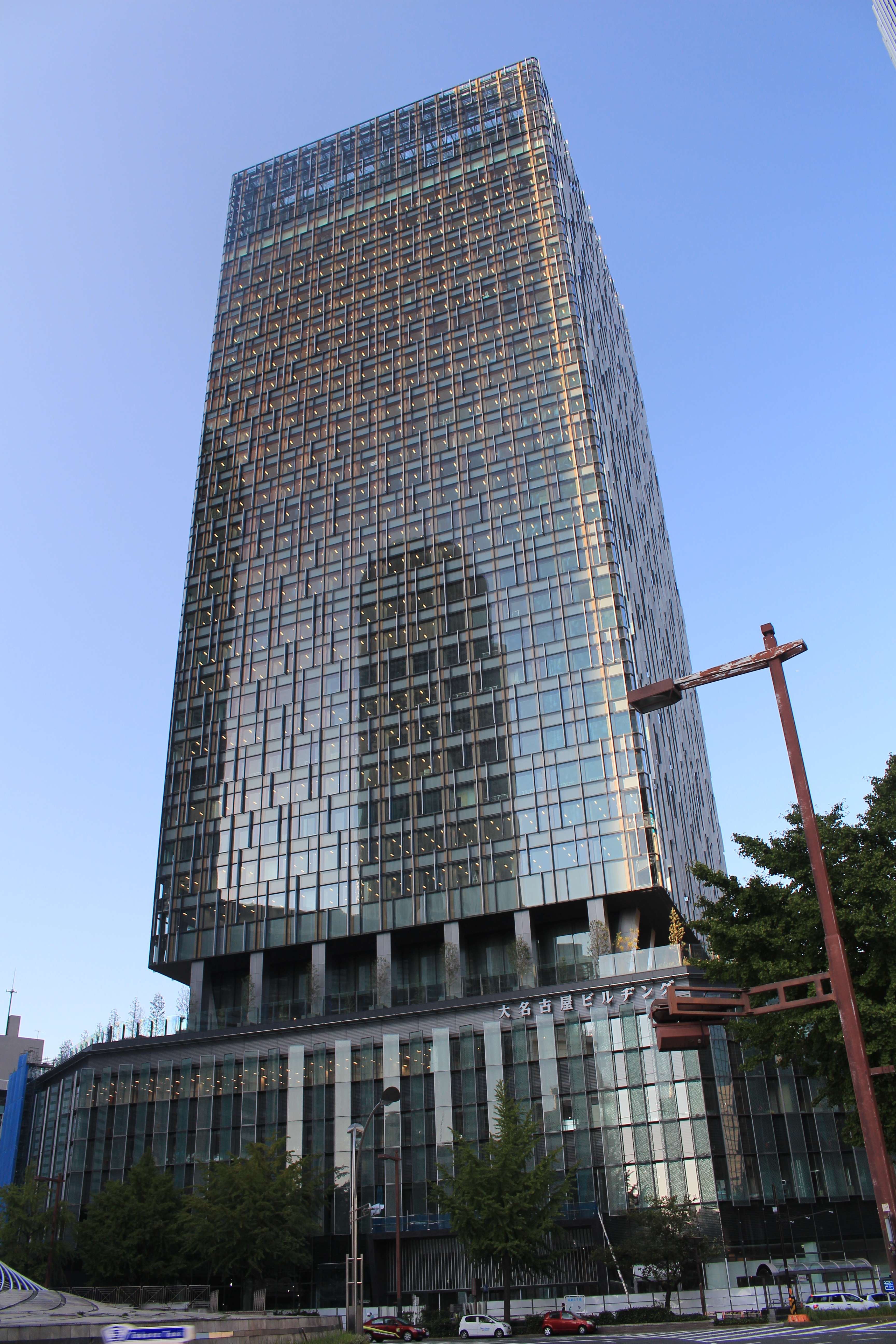 Dai-Nagoya Building under construction, in Meikei, Nakamura, Nagoya, Aichi prefecture, Japan.